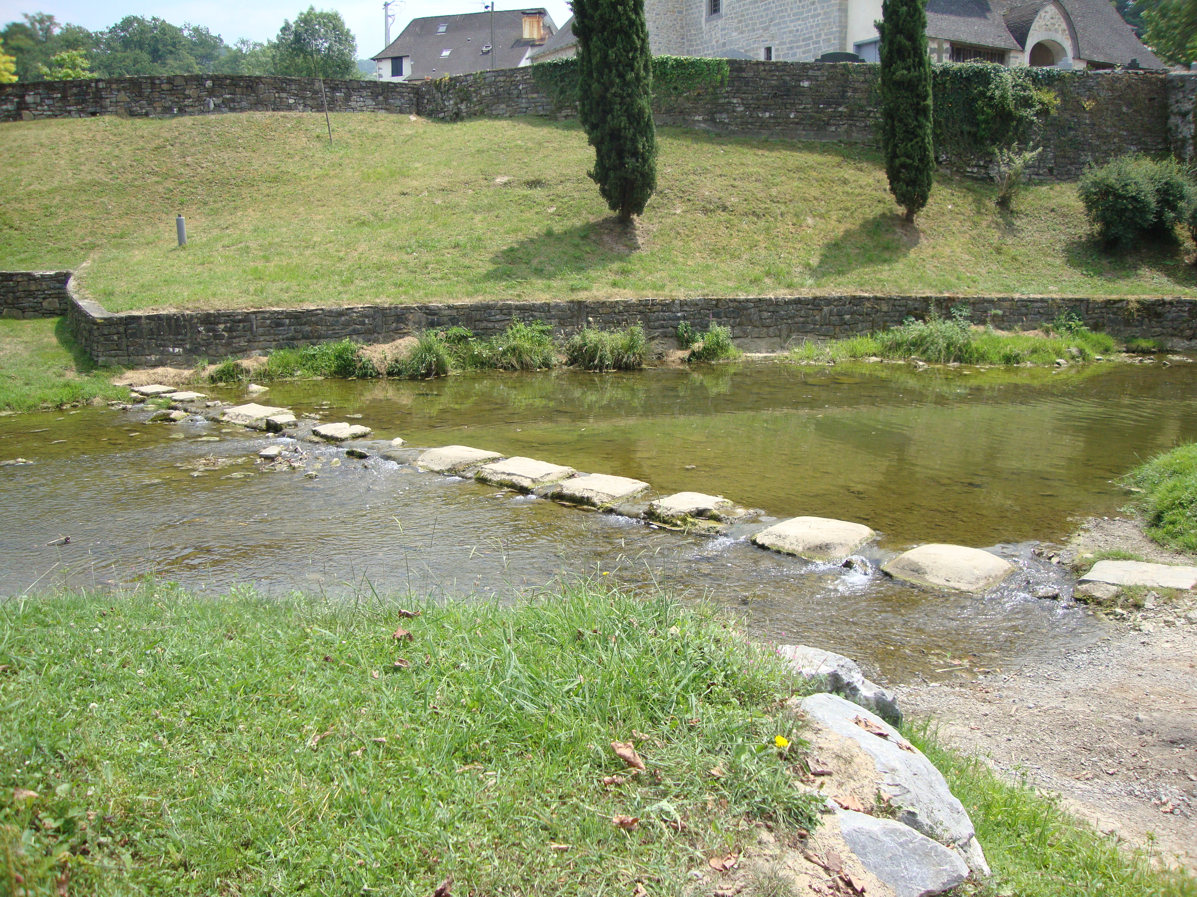 Ordiarp (Pyr-Atl, Fr) one of the fords over the Arangorena.